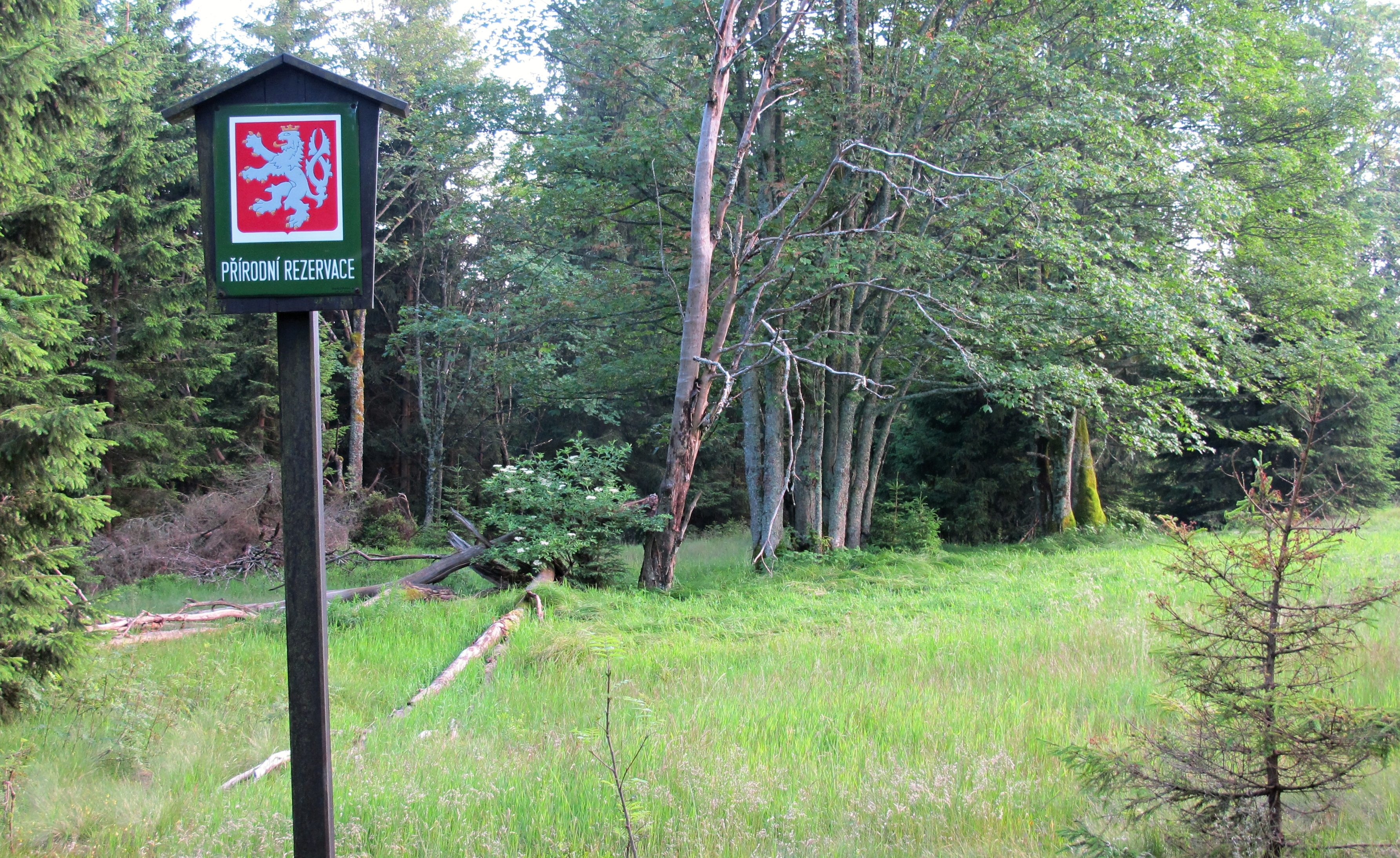 Nature reserve Prameniště near Železná Ruda in Klatovy District